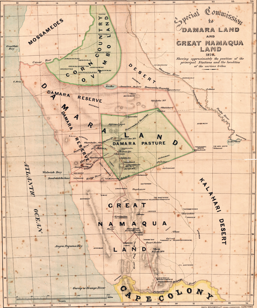 Map of WC Palgrave Commission to report on the people and states of Damaraland and Namaqualand and inform decision on merging Government of Cape of Good Hope with states of South West Africa.